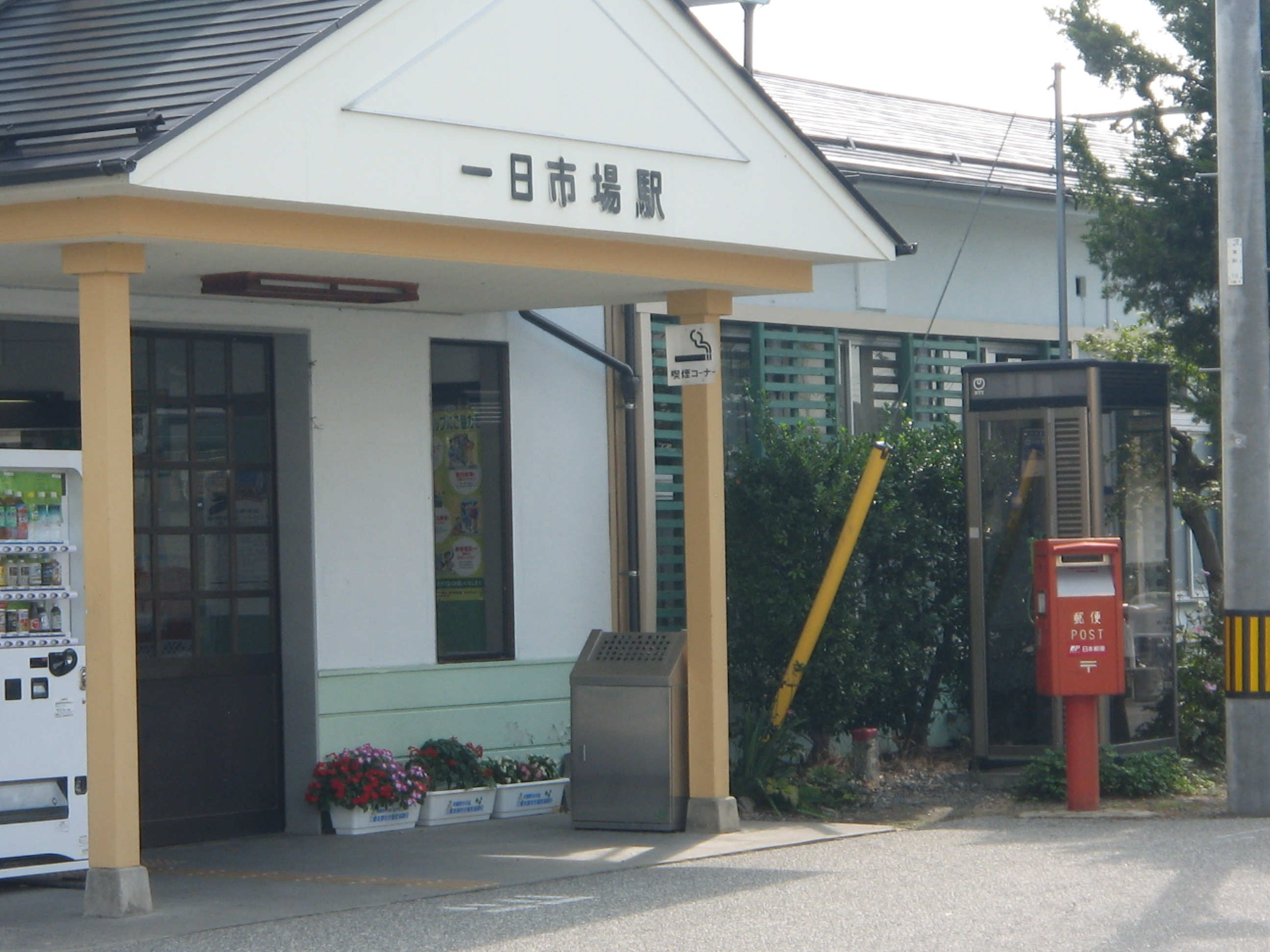 Hitoichiba Station on JR Oito Line